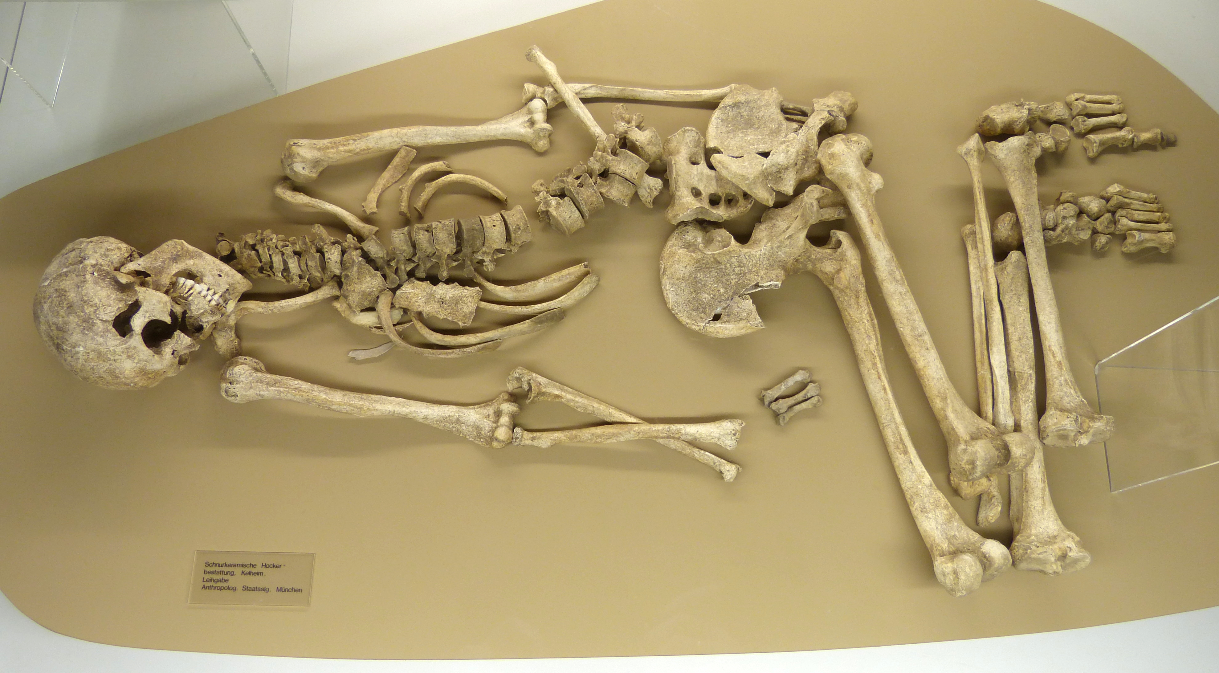 Kelheim ( Lower Bavaria ). Archaeological Museum: Crouched burial of a male from grave 85 of the Corded ware culture cemetery of Kelheim-Gmünd.